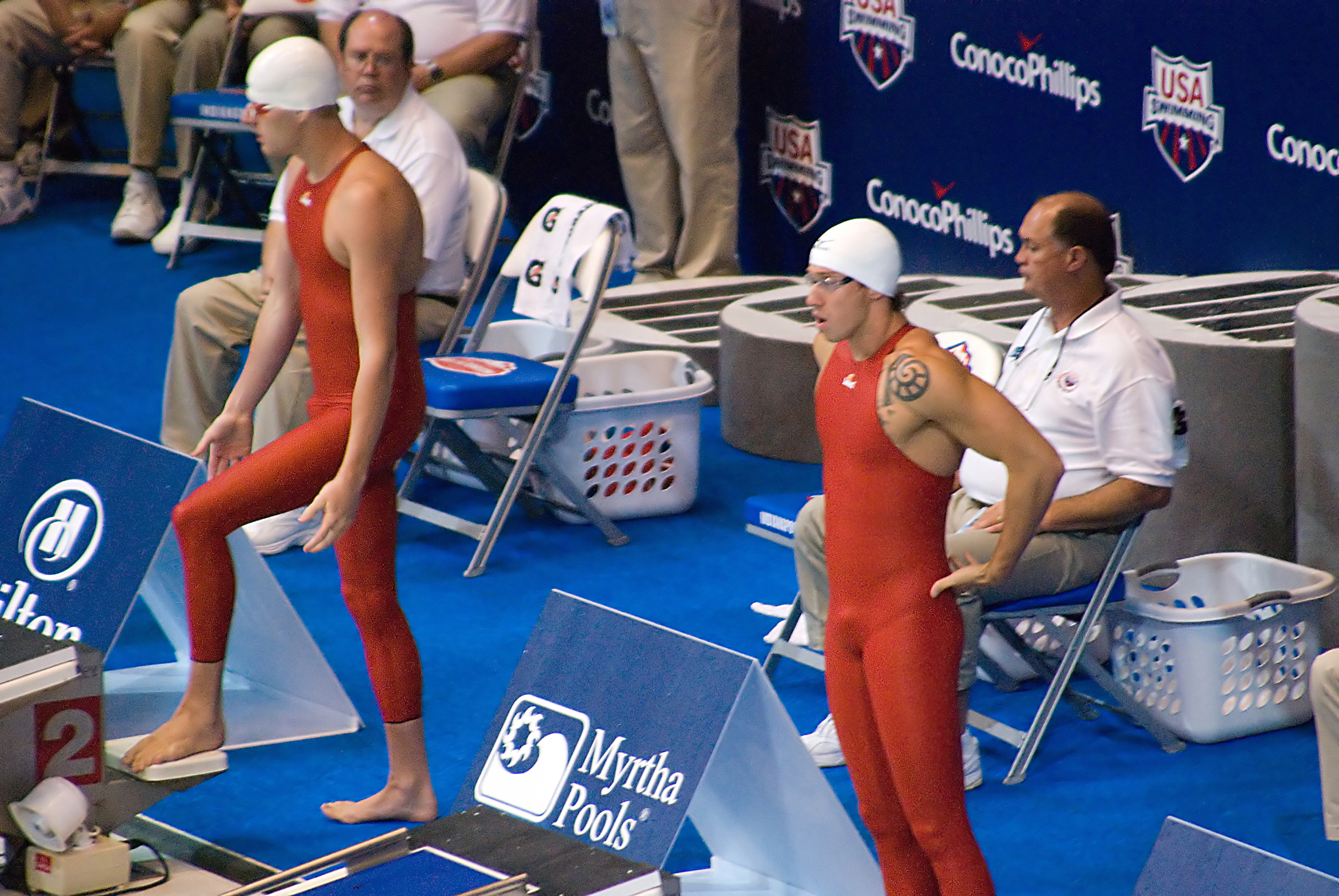 Swimmers wearing a Jaked suit at the 2009 US World Championnships Trials (Indianapolis) : French swimmer Fred Bousquet (right)